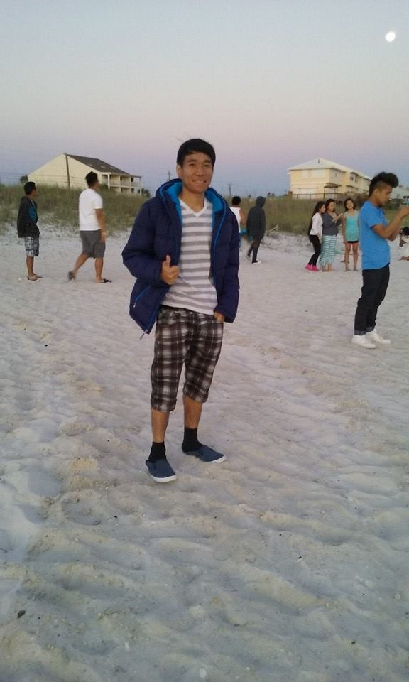 Karenni Boy